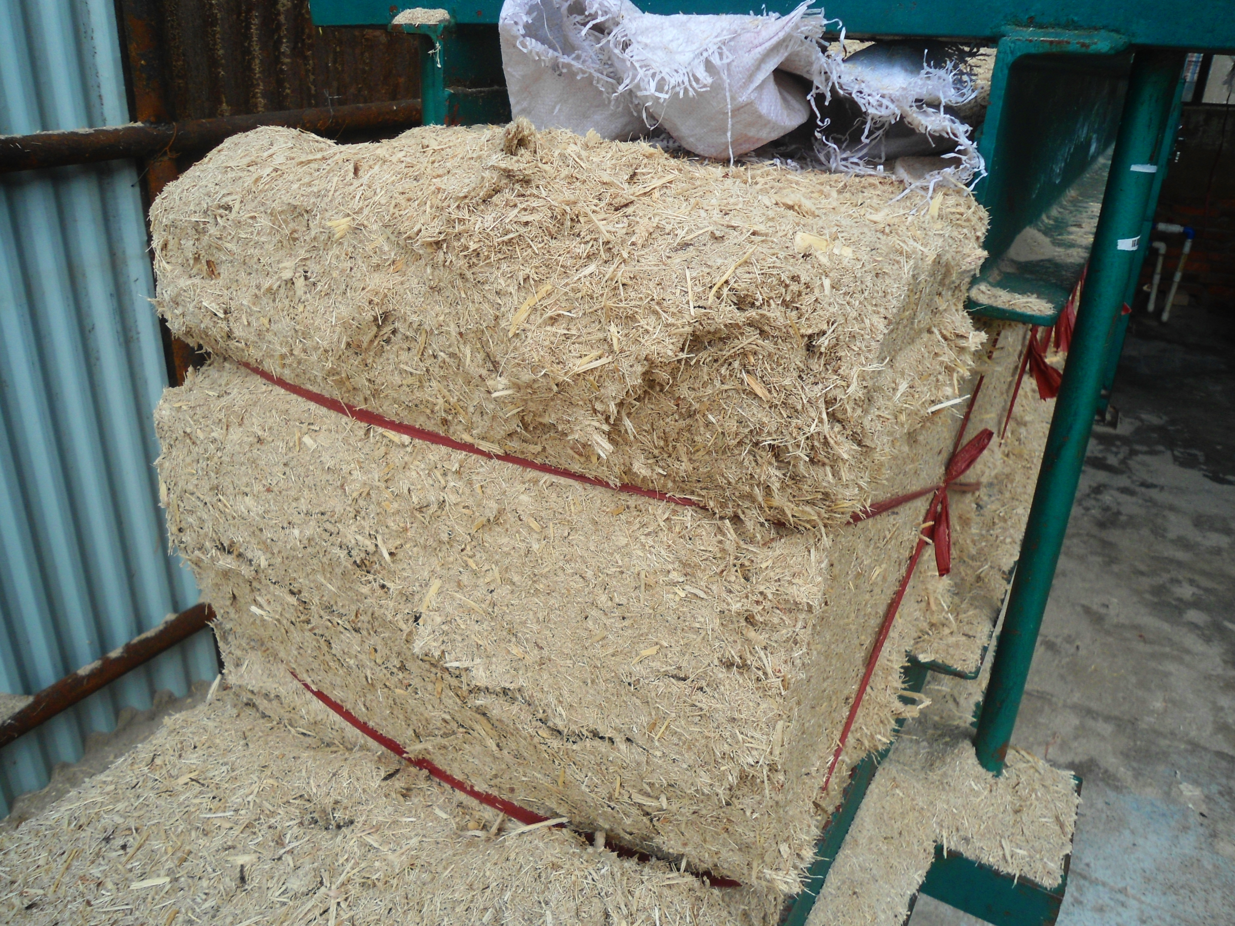 Bagasse at a sugarcane factory in Hainan, China.